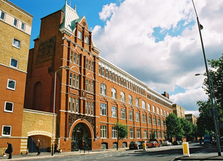 KCL student accommodation